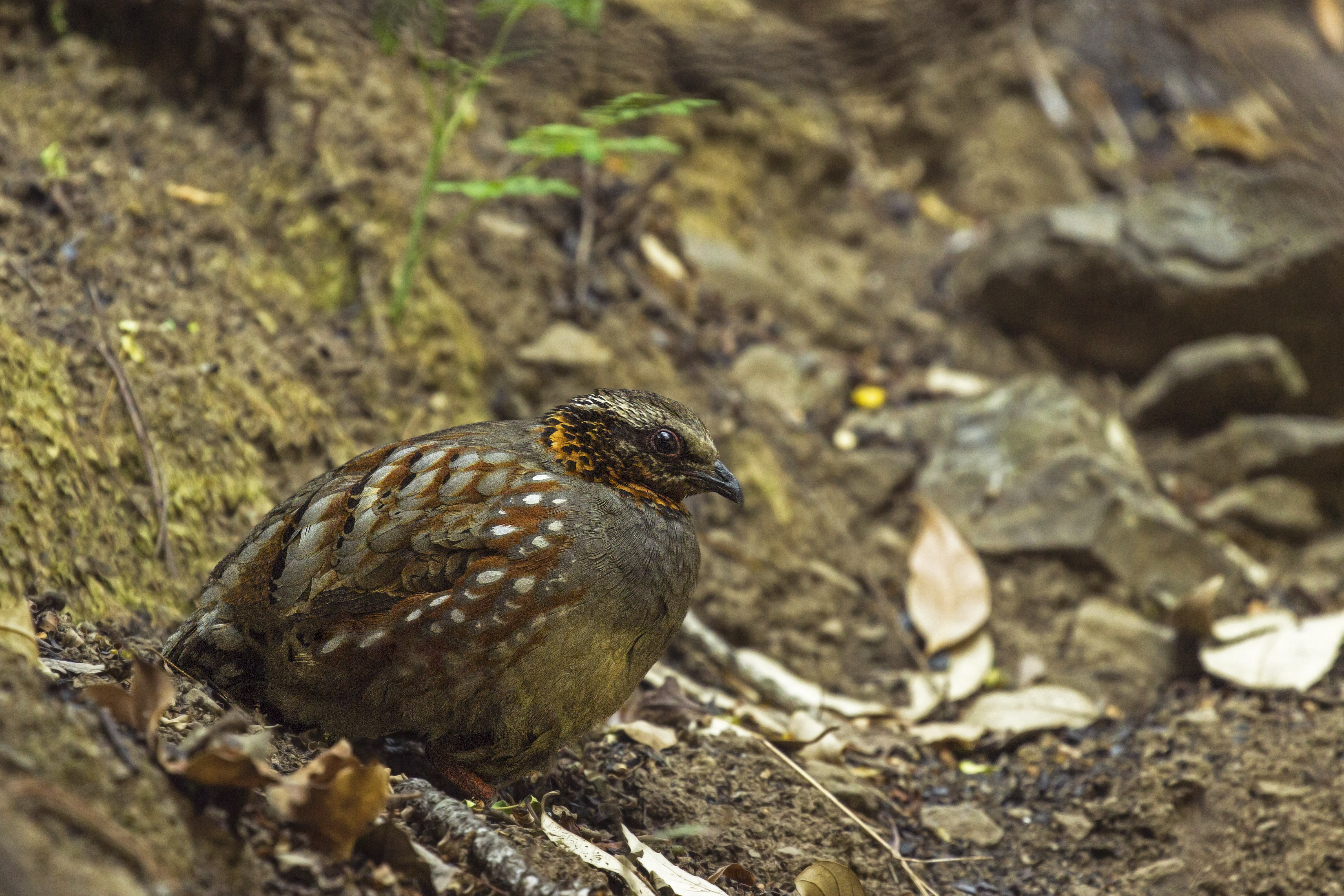 A Rufous Throated Partridge sits and rests in the bushes on a hot sunny day